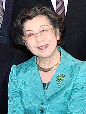 Tom Vilsack, Secretary of Agriculture, Caroline Kennedy, Ambassador to Japan, and the member of the U.S. - Japan Agricultural Trade Hall of Fame posed for the photograph at the Residence of the Ambassador in Tokyo on November 20, 2015.